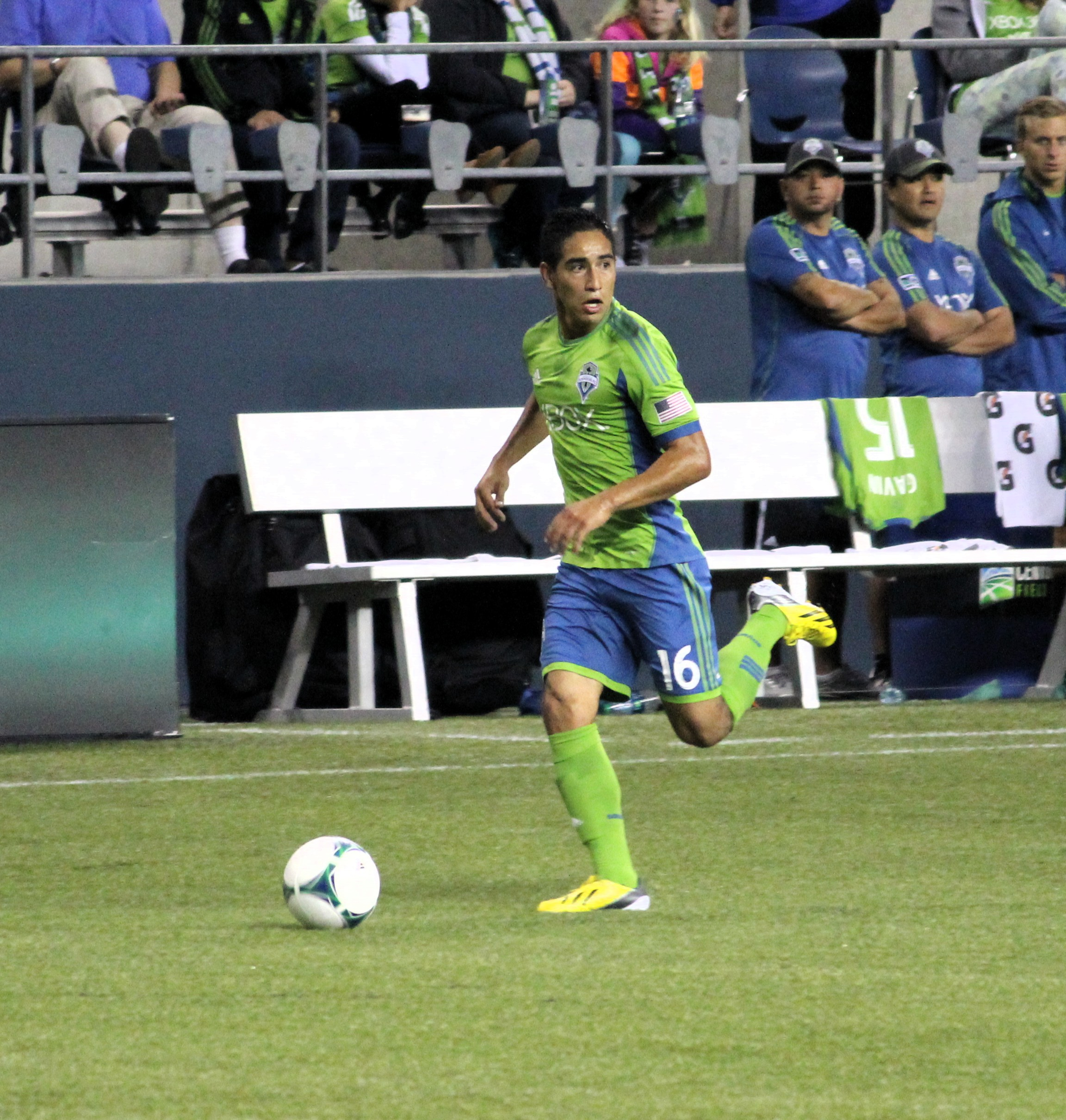 David Estrada of the Seattle Sounders FC in a game against Chivas USA at Centurylink Field on September 4, 2013